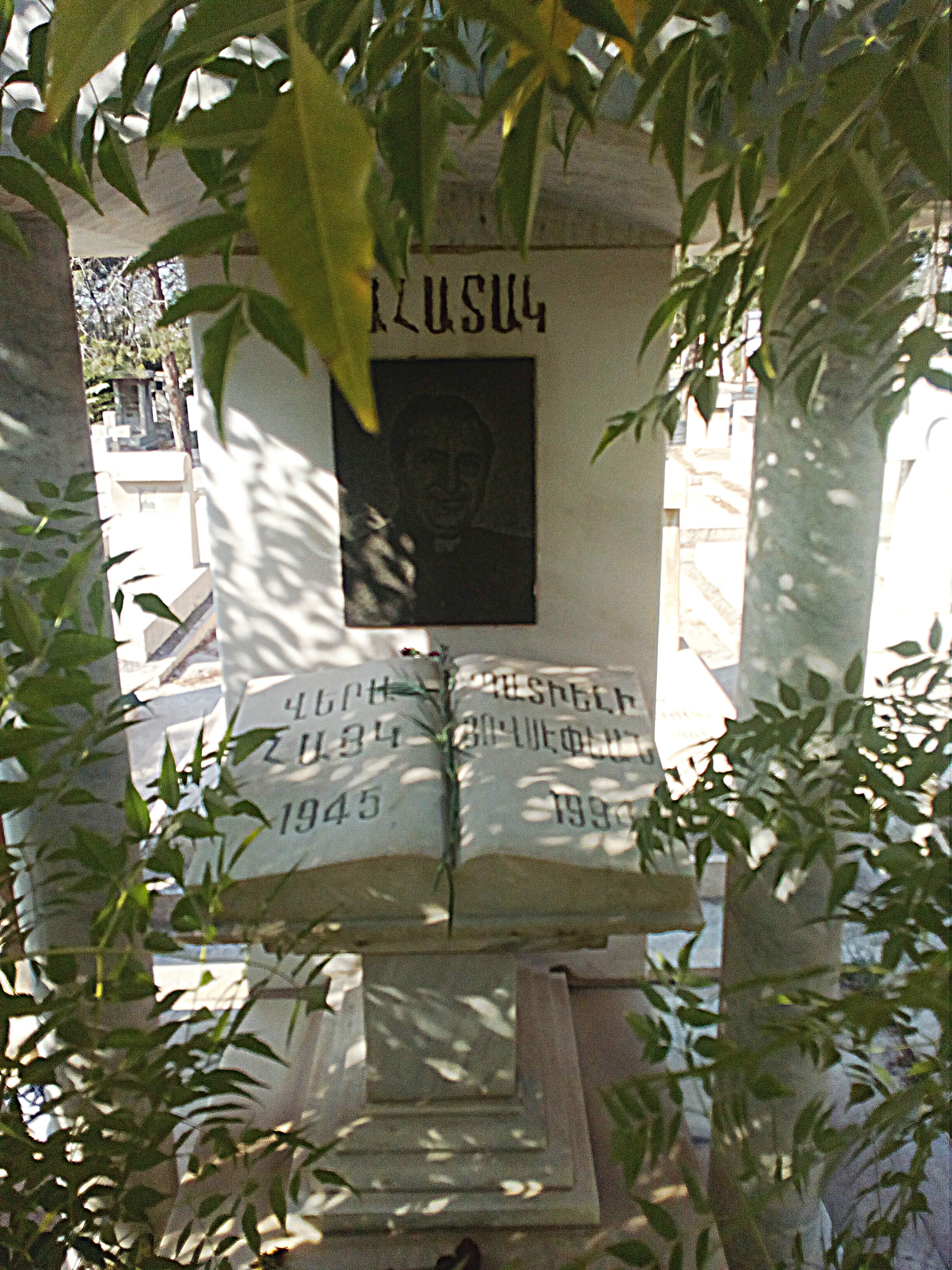 Haik Hovespian Tomb